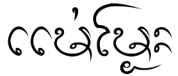 Lanna script – Mae Mo is a district (amphoe) in the eastern part of Lampang Province, northern Thailand.